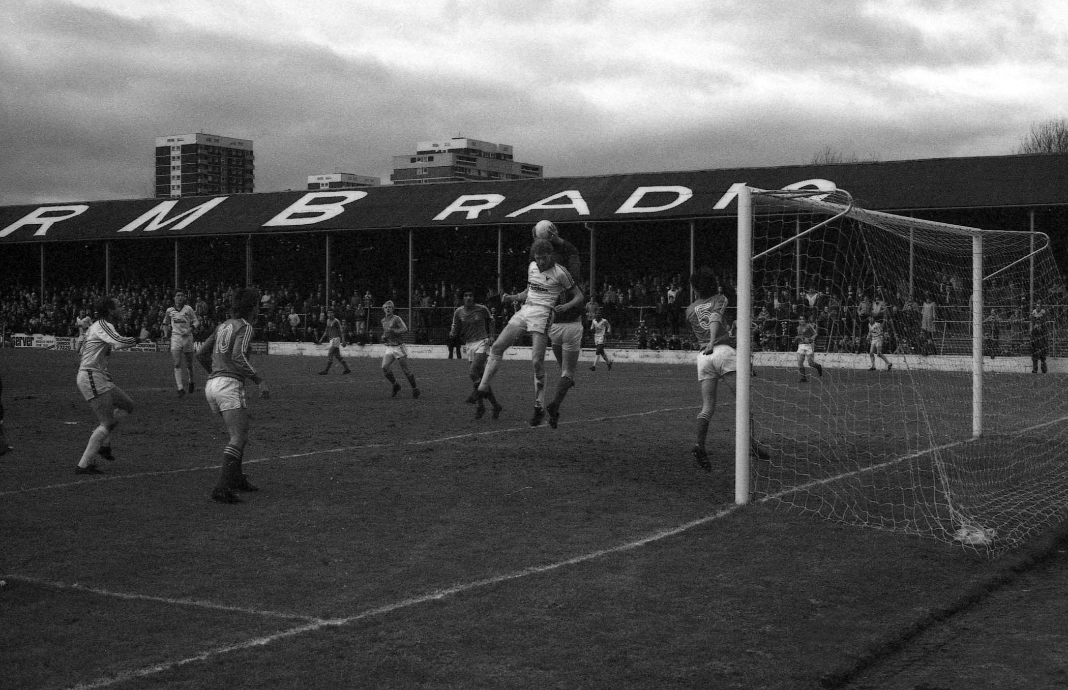 Fellows Park in Walsall Walsall F.C. played at Fellows Park until May 1990.